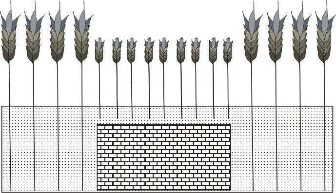 Explanation of a process of emergence of a negative crop-marks over archaeological feature. Designed by Weronika Kobylińska.